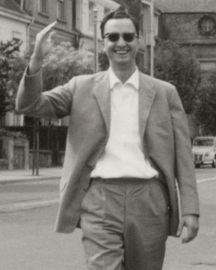 Wilfried Hilgert (1963)